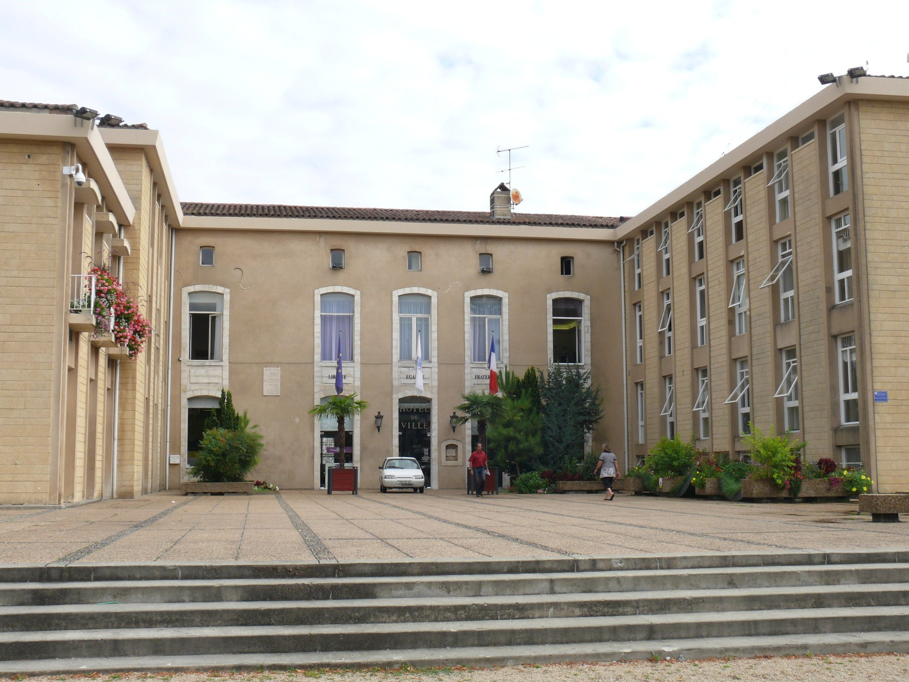 The townhall of Dax (Landes, Pyrénées-Atlantiques, France).